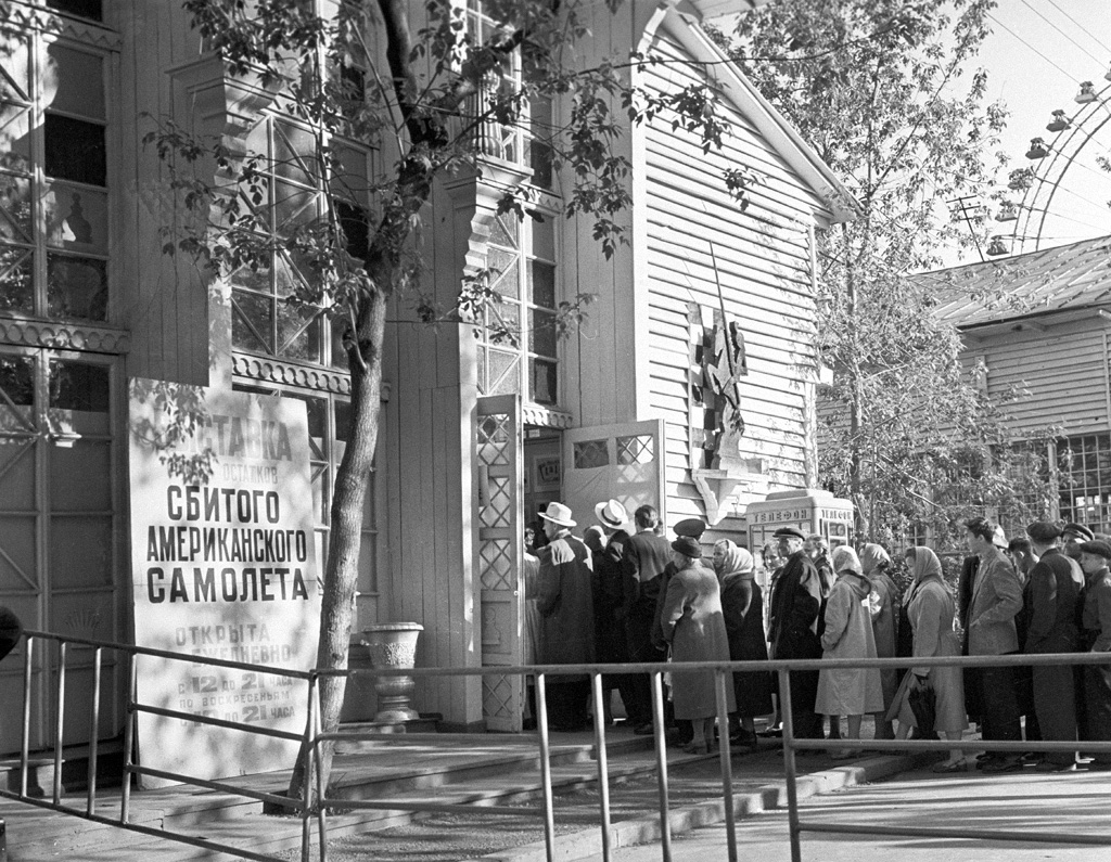 “Exhibition of remains of U.S. destroyed U-2 spy-in-the-sky aircraft”. Entrance to the exhibition of remains of U.S. U-2 spy-in-the-sky aircraft, destroyed on May 1, 1960 near Sverdlovsk (currently Yekaterinburg). Gorky Central Park of Culture and Leisure.